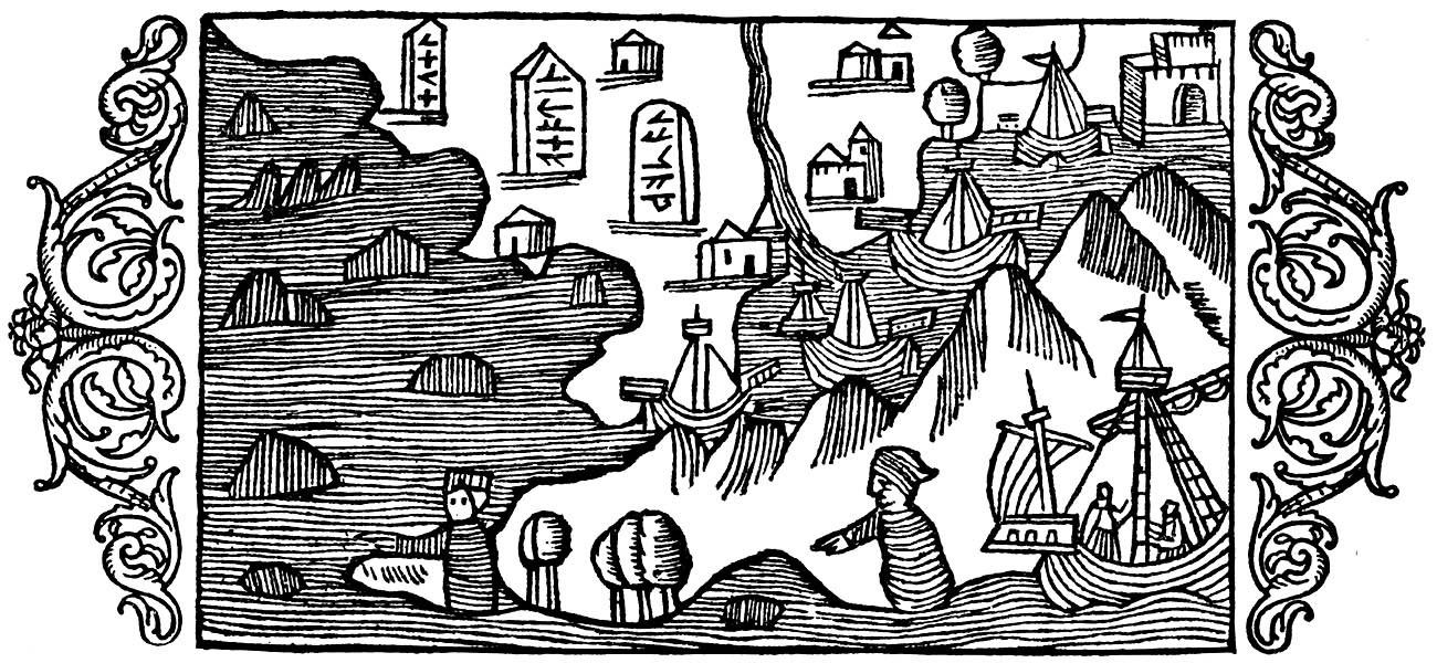 This part of Sweden is seen from the east. The castle at the upper right corner is Stockholm. The large island is Värmdö. Smaller ships can sail the short but narrow passage (Baggenstäket) in the middle of the woodcut to reach Stockholm. Larger ships have to sail the long and difficult route north of Värmdö trough the archipelago. The land area south of Baggenstäket is Södertörn, where three rune stones are seen.